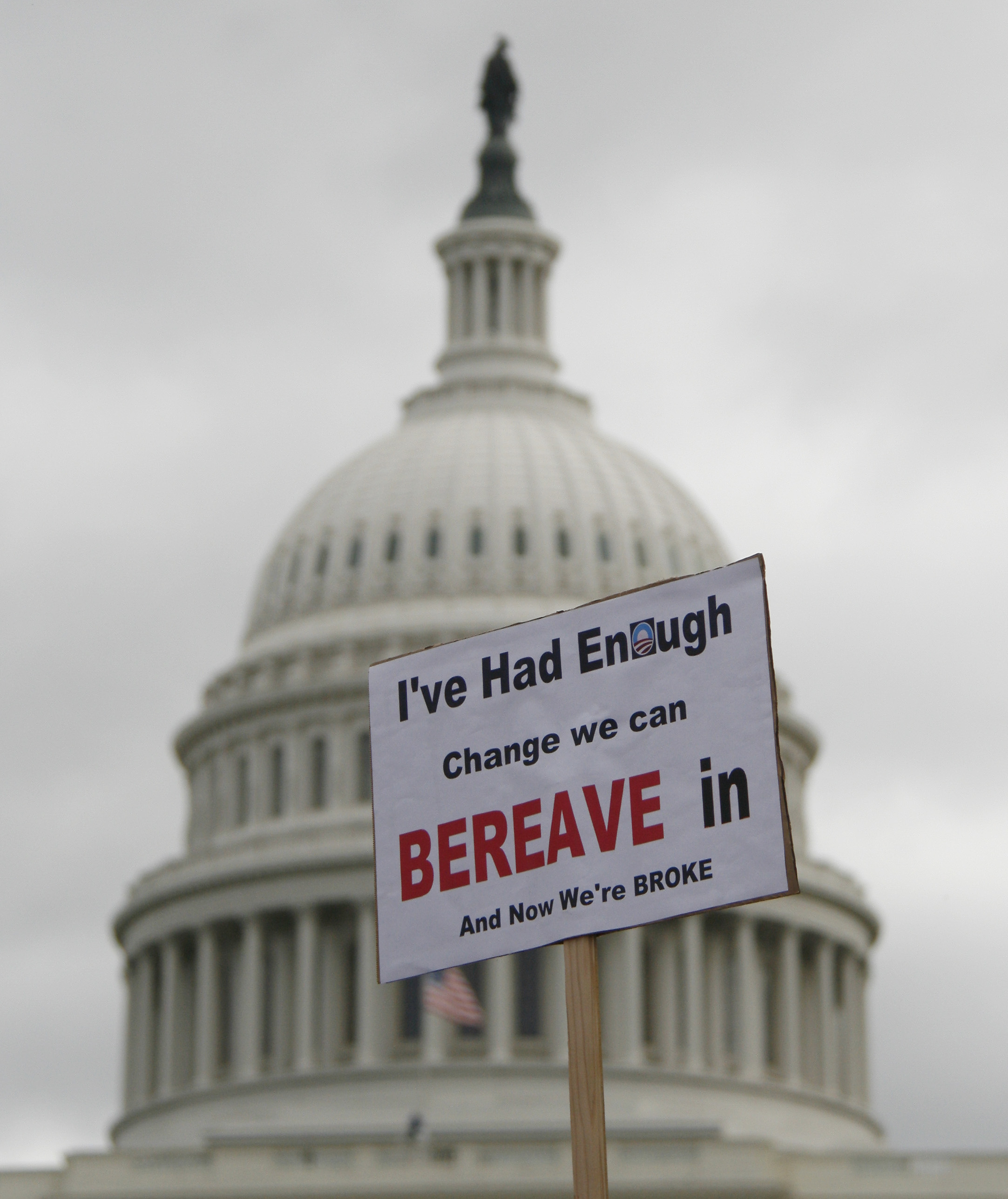 Protest sign at the Taxpayer March on Washington. The United States Capitol is in the background.